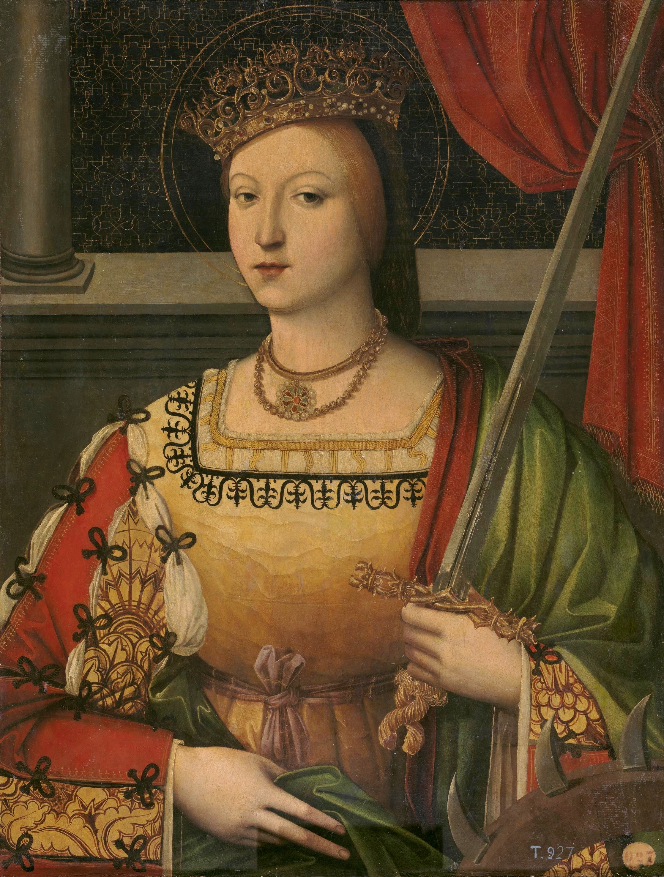 Catherine of Austria, Queen of Portugal, daughter of King Felipe I of Spain, and Infanta Juana of Spain (Juana la Loca), wife of King João III of Portugual, mother of Prince João Manuel of Portgual.